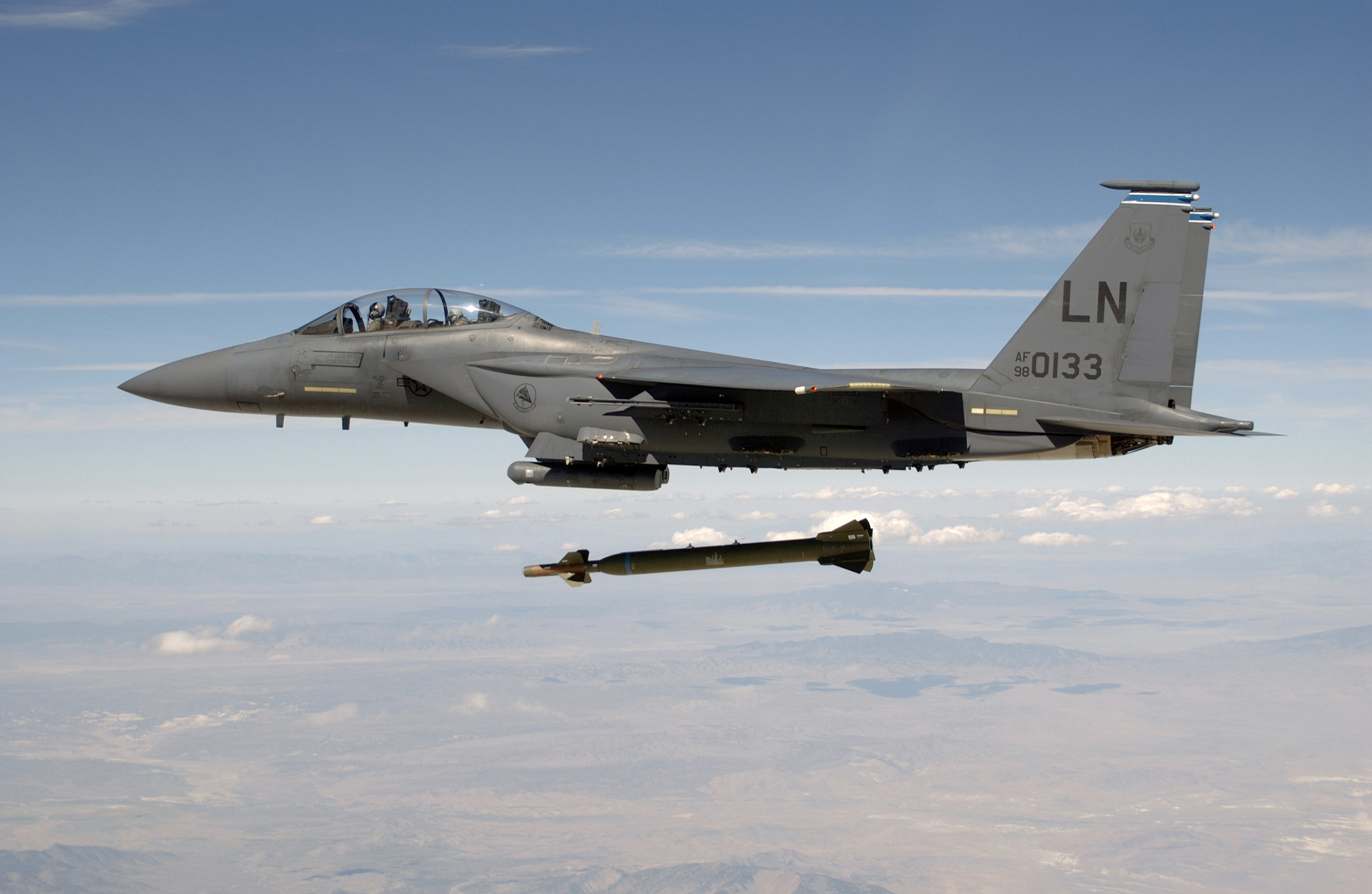 A US Air Force (USAF) F-15E Strike Eagle aircraft from the 492nd Fighter Squadron, 48th Fighter Wing, Royal Air Force (RAF) Lakenheath, United Kingdom (UK) releases a GBU-28 "Bunker Buster" 5,000-pound Laser-Guided Bomb over the Utah Test and Training Range during a weapons evaluation test.